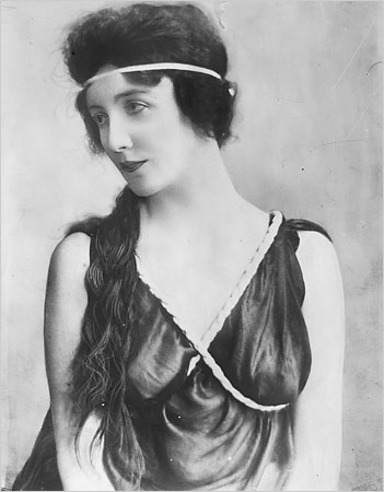 Portrait of Audrey Munson